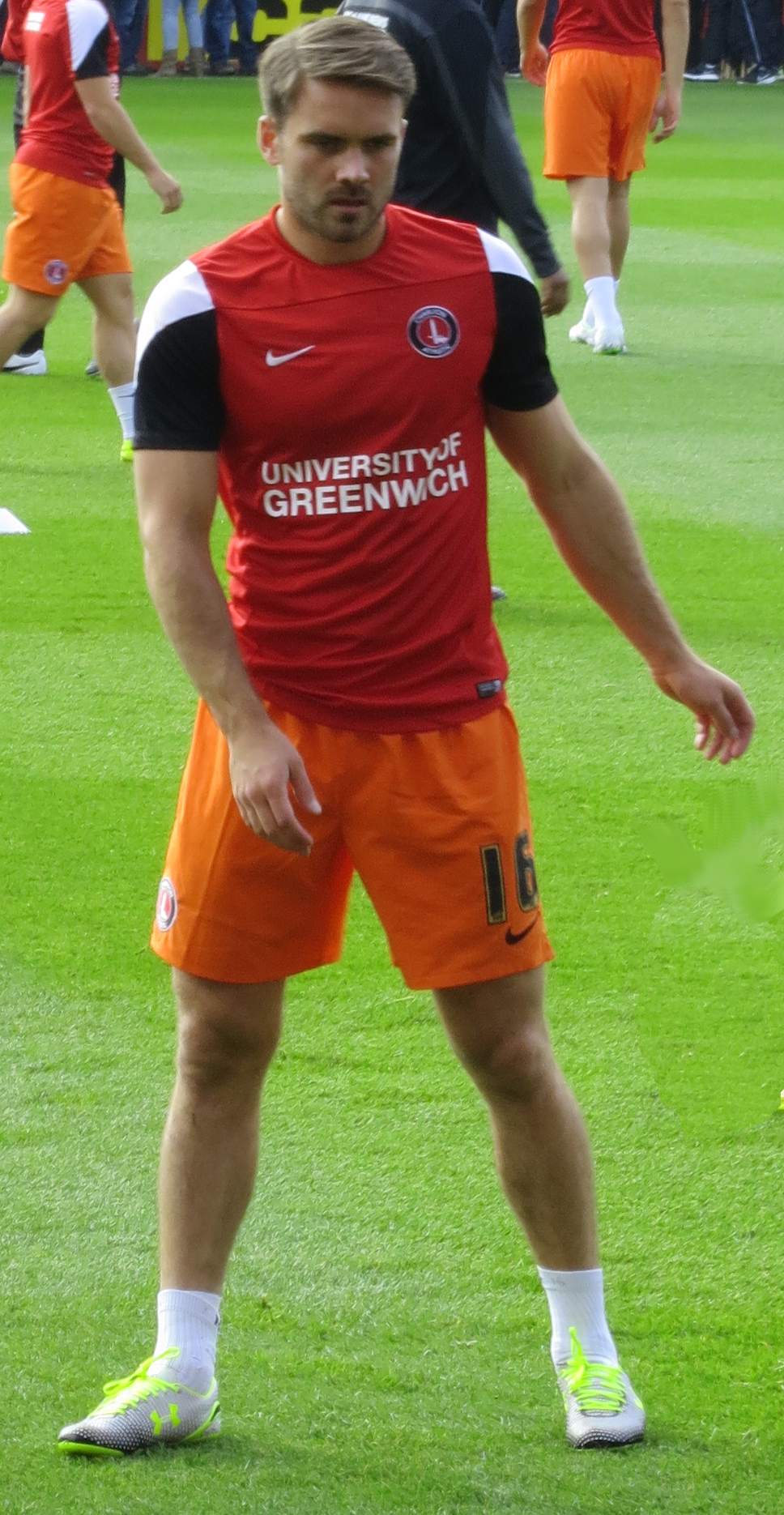 Rhoys Wiggins warming up for the Charlton Athletic away game at AFC Bournemouth in October 2014